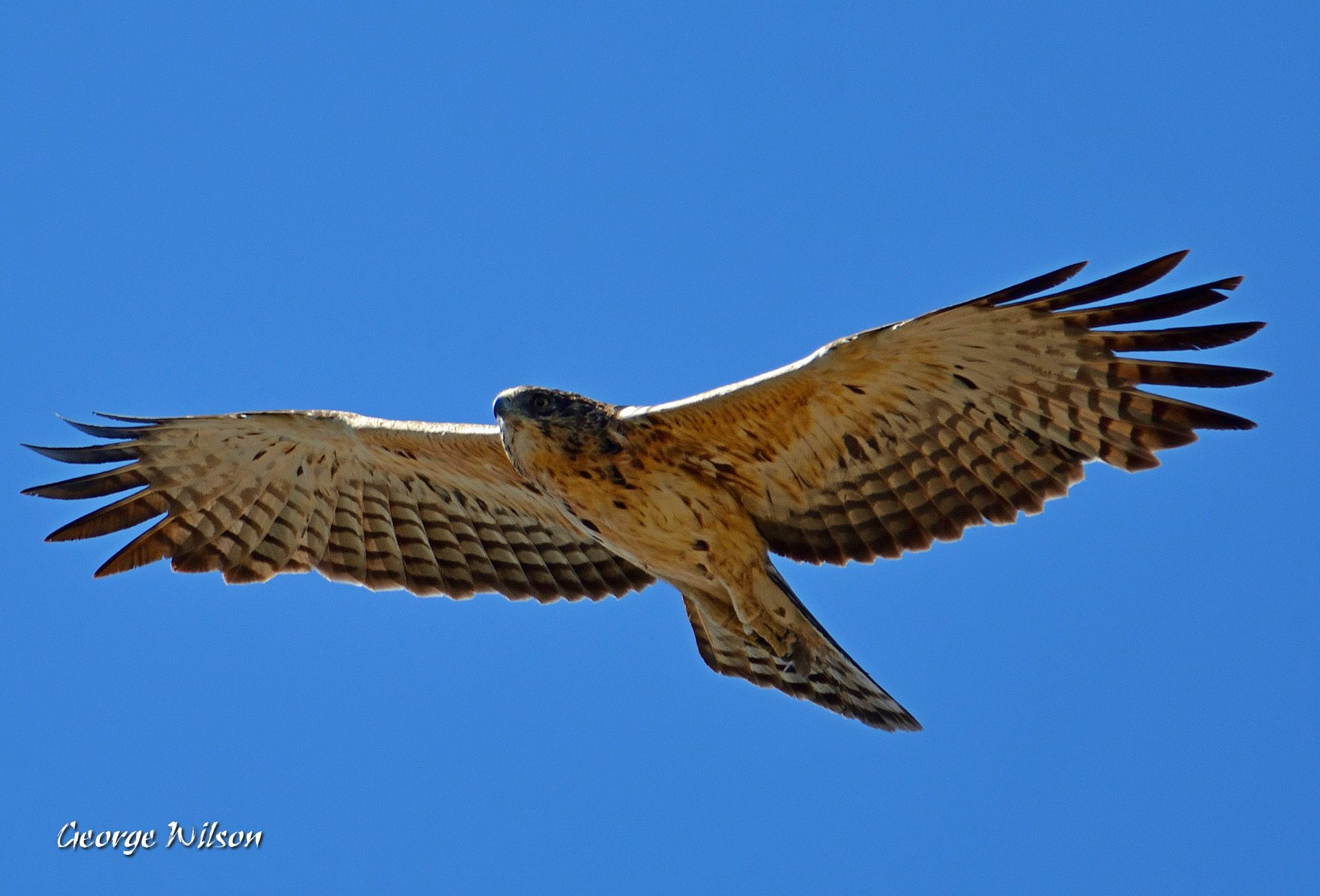 Hieraaetus ayresii - Maun, Botswana